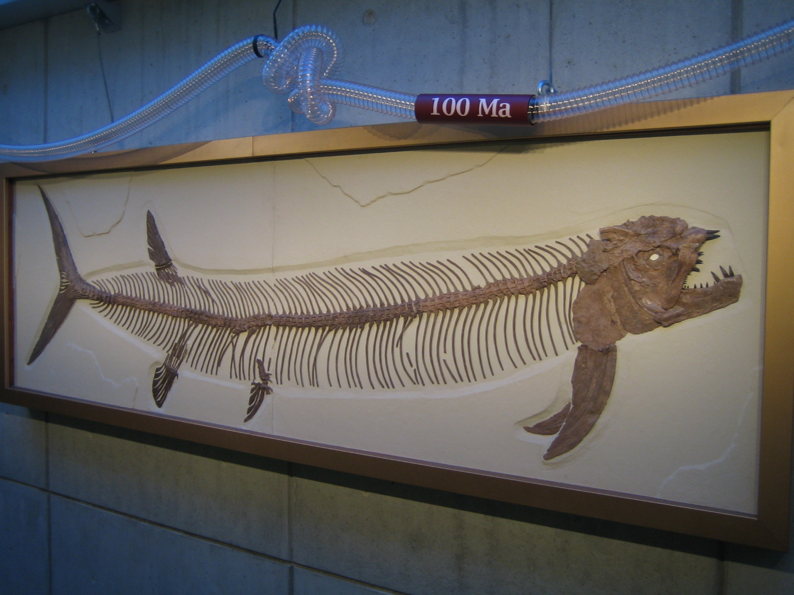 Xiphactinus audax in Cosmocaixa, Barcelona.